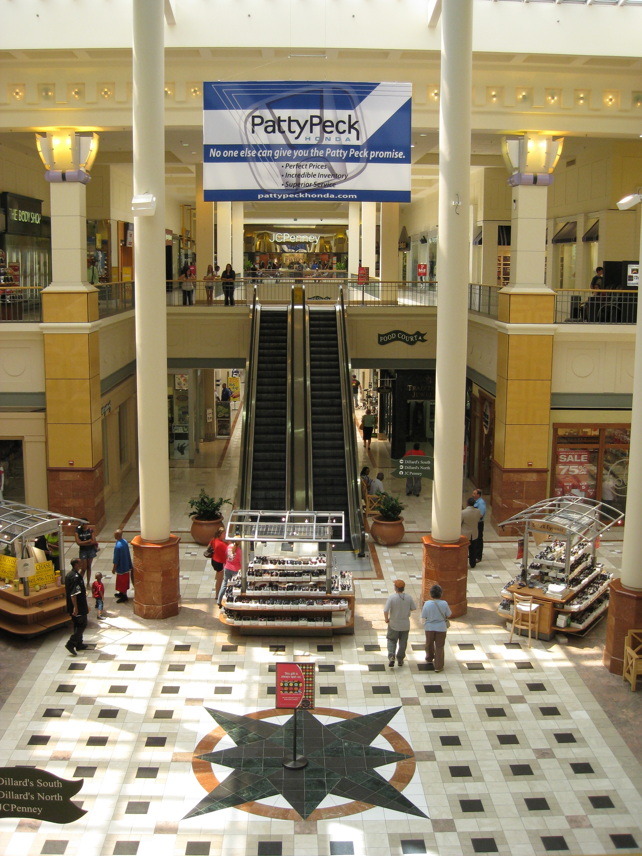 Looking northwest from the second floor at Center Court in Northpark Mall in Ridgeland, Mississippi.